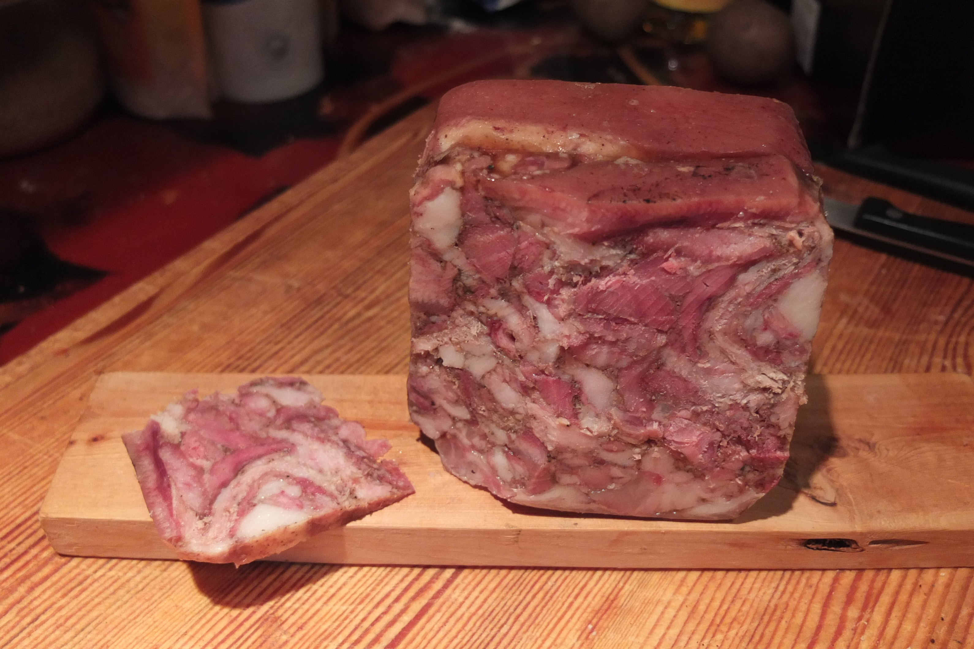 Head cheese from Kabelvåg, Norway (Erdahl kjøttforetning)